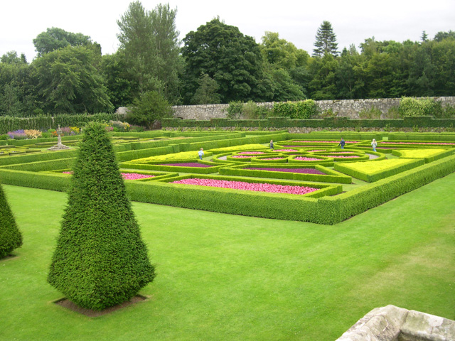 Parterre garden at Pitmedden, near to Pitmedden, Aberdeenshire, Great Britain. The view is looking at the far corner of the garden away from the main house.